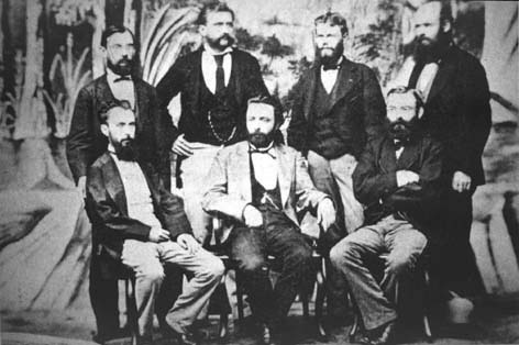 Members of the Academia Nacional de Ciencias (Córdoba) in 1876. Sitting, from left to right: Hendrik Weyenbergh (zoologist), Francisco Latzina (mathematician and geographer), Oskar Doering (physician); standing: Jorge Hieronymus (botanist), Luis Brackebusch (geologist), Adolf Doering (chemist and geologist)